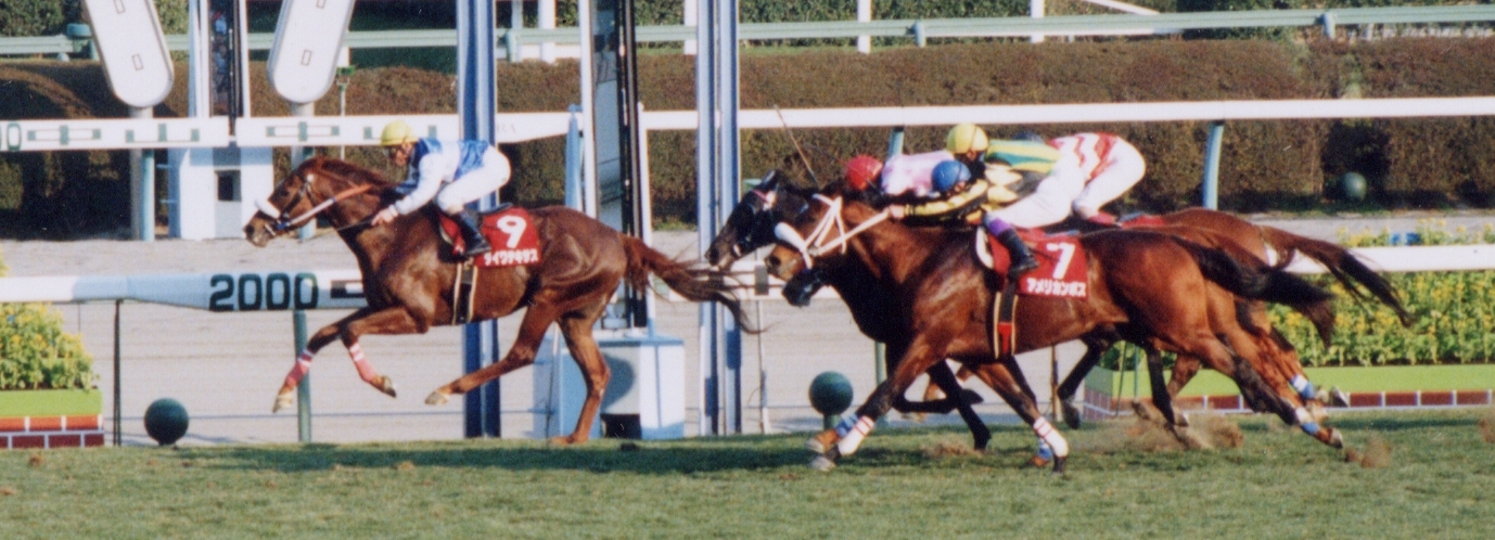 Nakayama Kinen